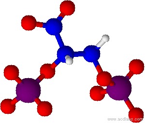 2,3-Bisphosphoglycerate